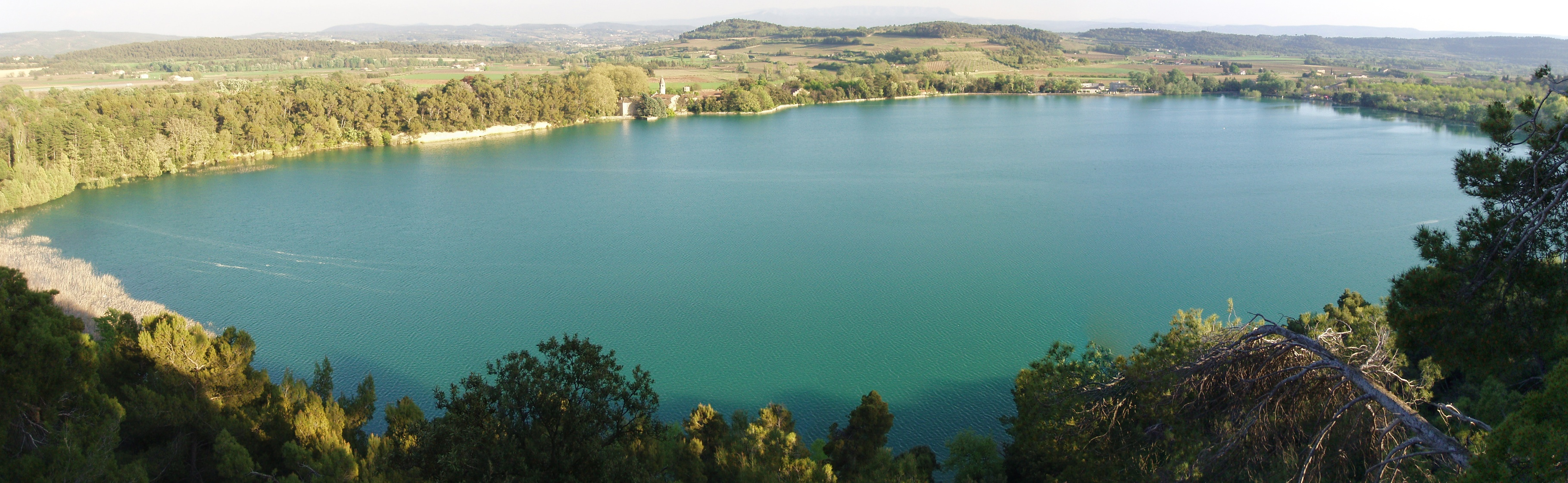 Étang de la Bonde, Vaucluse, France, seen from the north.